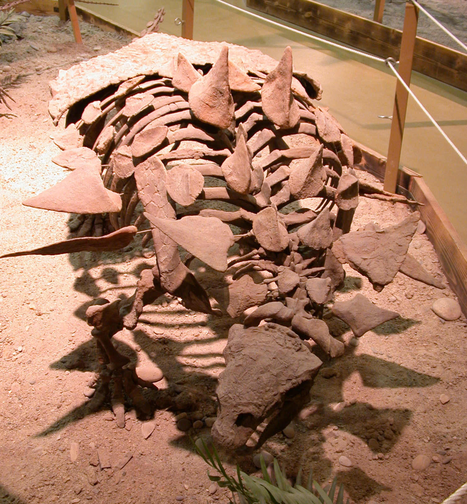 gastonia burgei (ankylosaur), Wyoming Dinosaur Center, Thermopolis / 2006